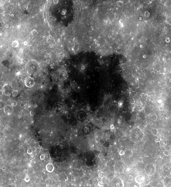 Mare Smythii is located along the equator on the easternmost edge of the near side. The Smythii basin where the mare is located is of the Pre-Nectarian epoch, while the surrounding features are of the Nectarian system. The mare material, which make up the floor of the mare, is a high alumious basalt, and consists of Upper Imbrian basalt covered by Eratosthenian basalt. The Crater located to the north of the mare, at the top of the photo, is Neper. This crater makes up part of the southern rim of Mare Marginis. Just off to the northwest of the mare are the craters Schubert (top) and Schubert B (bottom). The dark mare filled crater at the southern edge of Smythii is the crater Kastner.